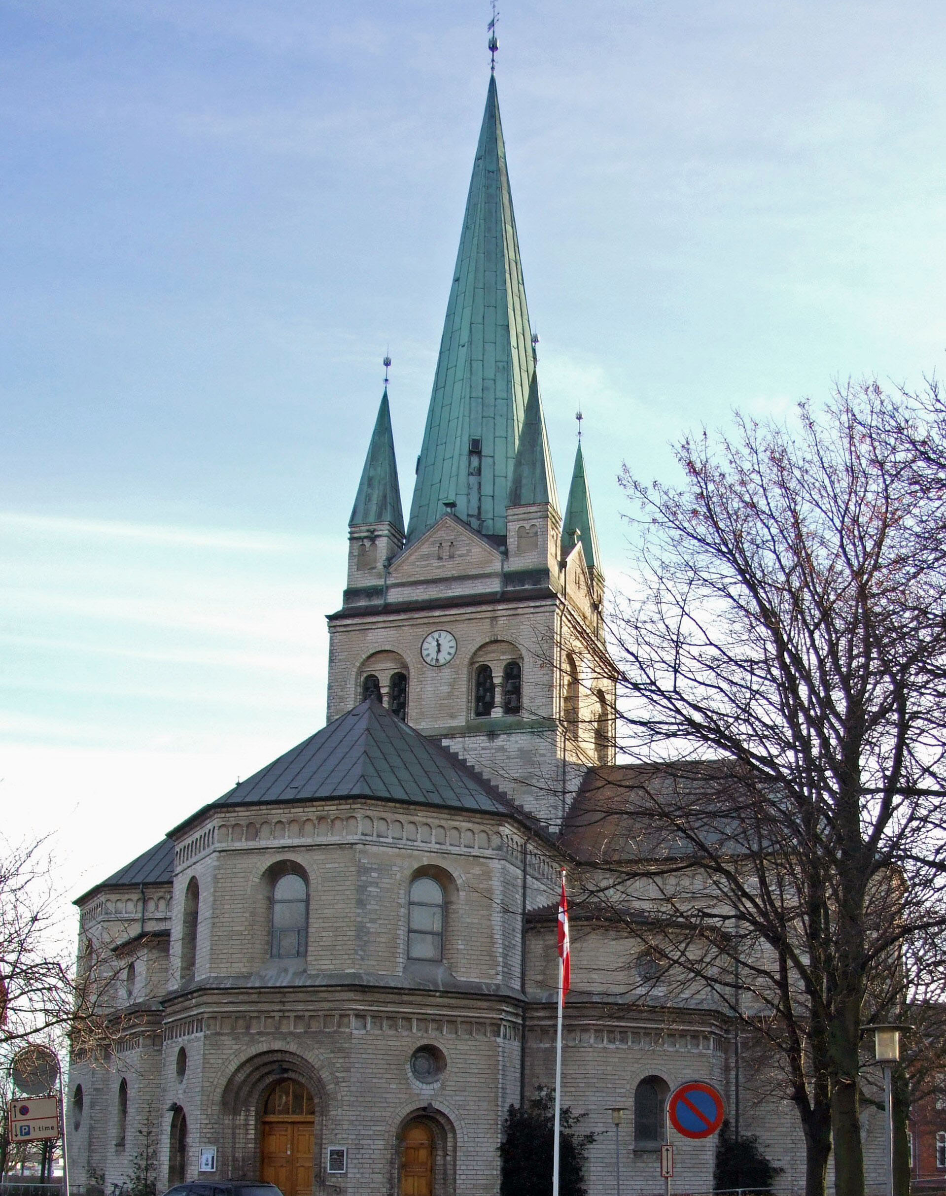 The danish church (Frederikshavn Kirke) situated in the city of Frederikshavn. Photo by Jørgen Larsen, 2005-12-14